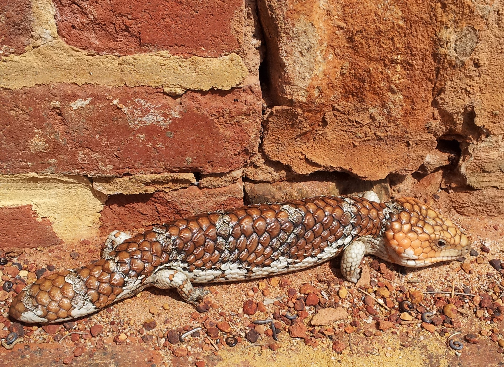 Bobtail lizard sighted at Toodyay, Western Australia, Sept 2013